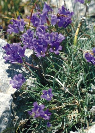 Edraianthus horvatii